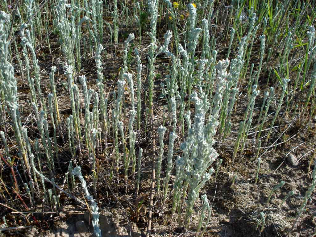 Filago arvensis (Unterfranken, Germany)